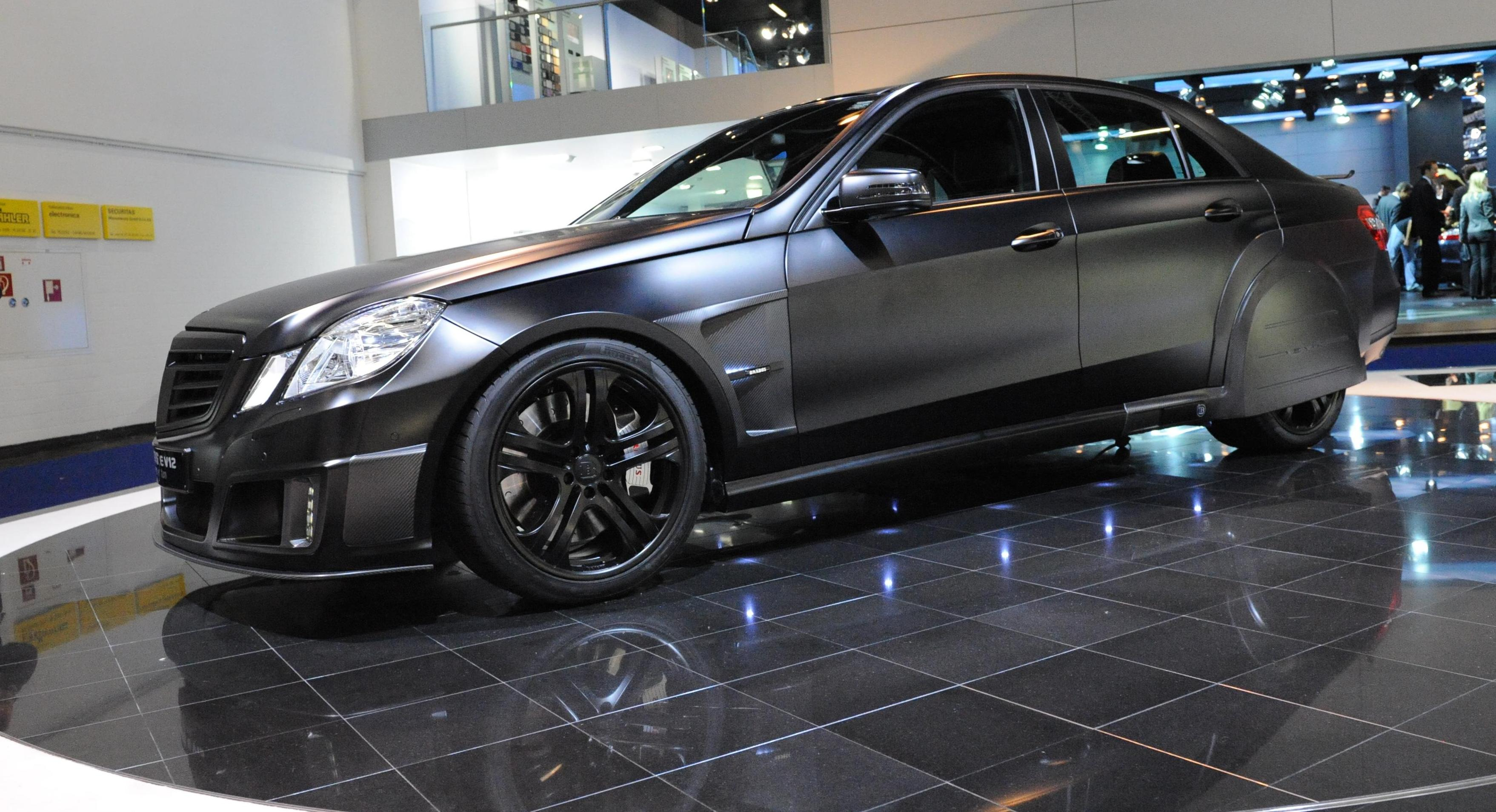 BRABUS EV12 Limited Edition (10 units) exhibited at 2009 Frankfurt Motor Show